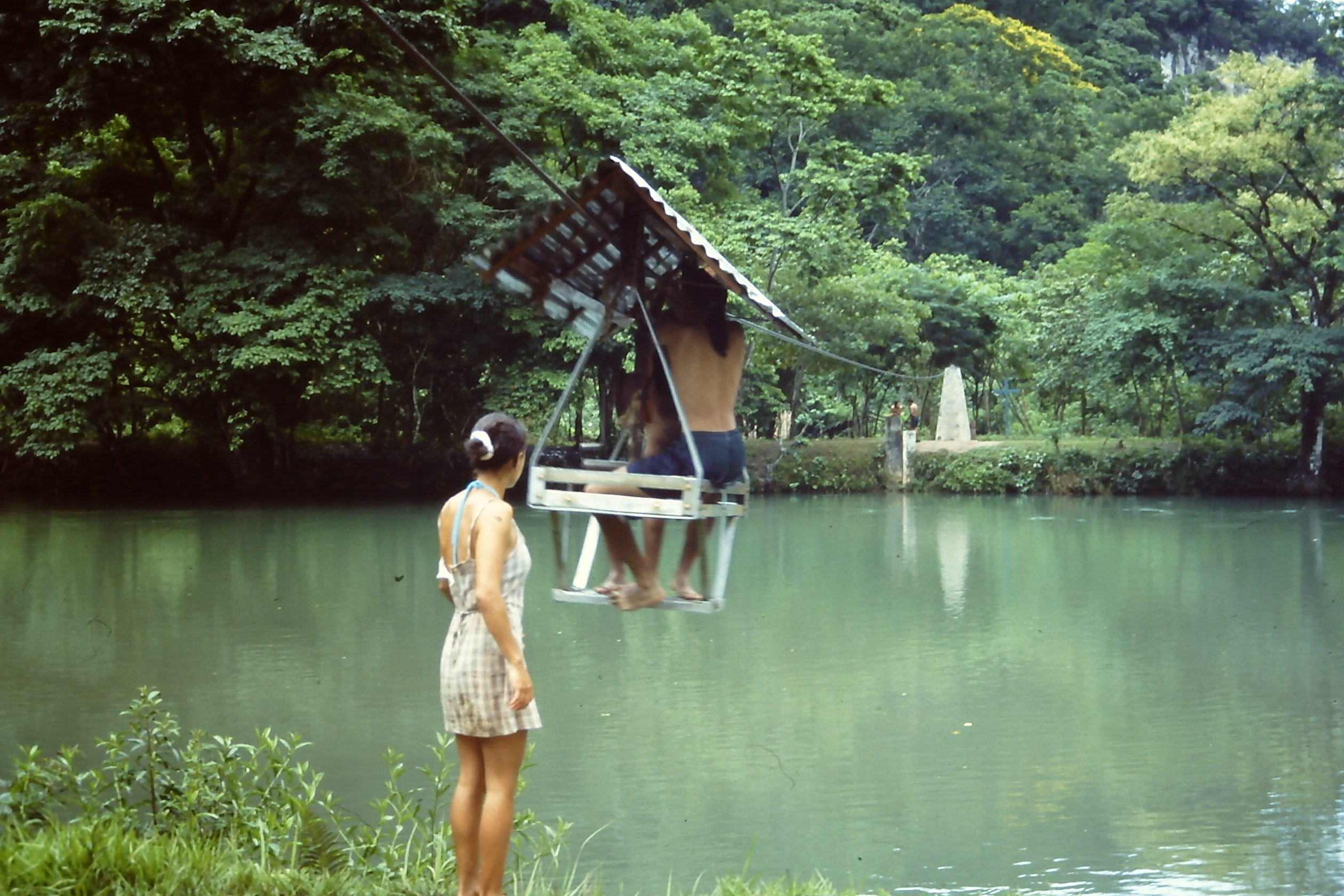 Crossing Agua Azul (rio Xanil) in Chiapas by cable bridge